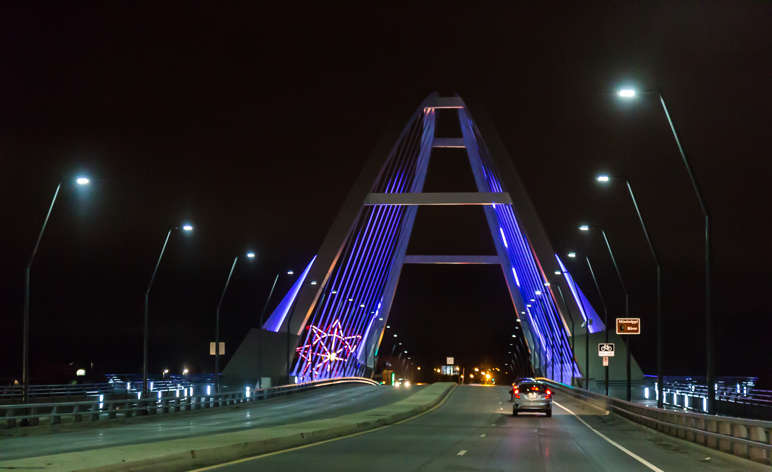 The Lowry Bridge over the Mississippi River is lit purple after the death of Prince. Minneapolis, Minnesota.